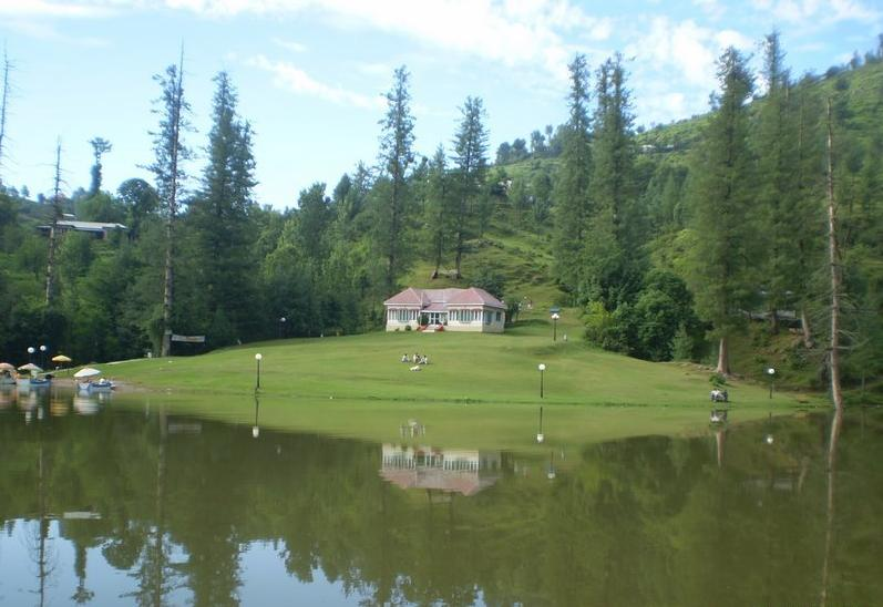 Banj